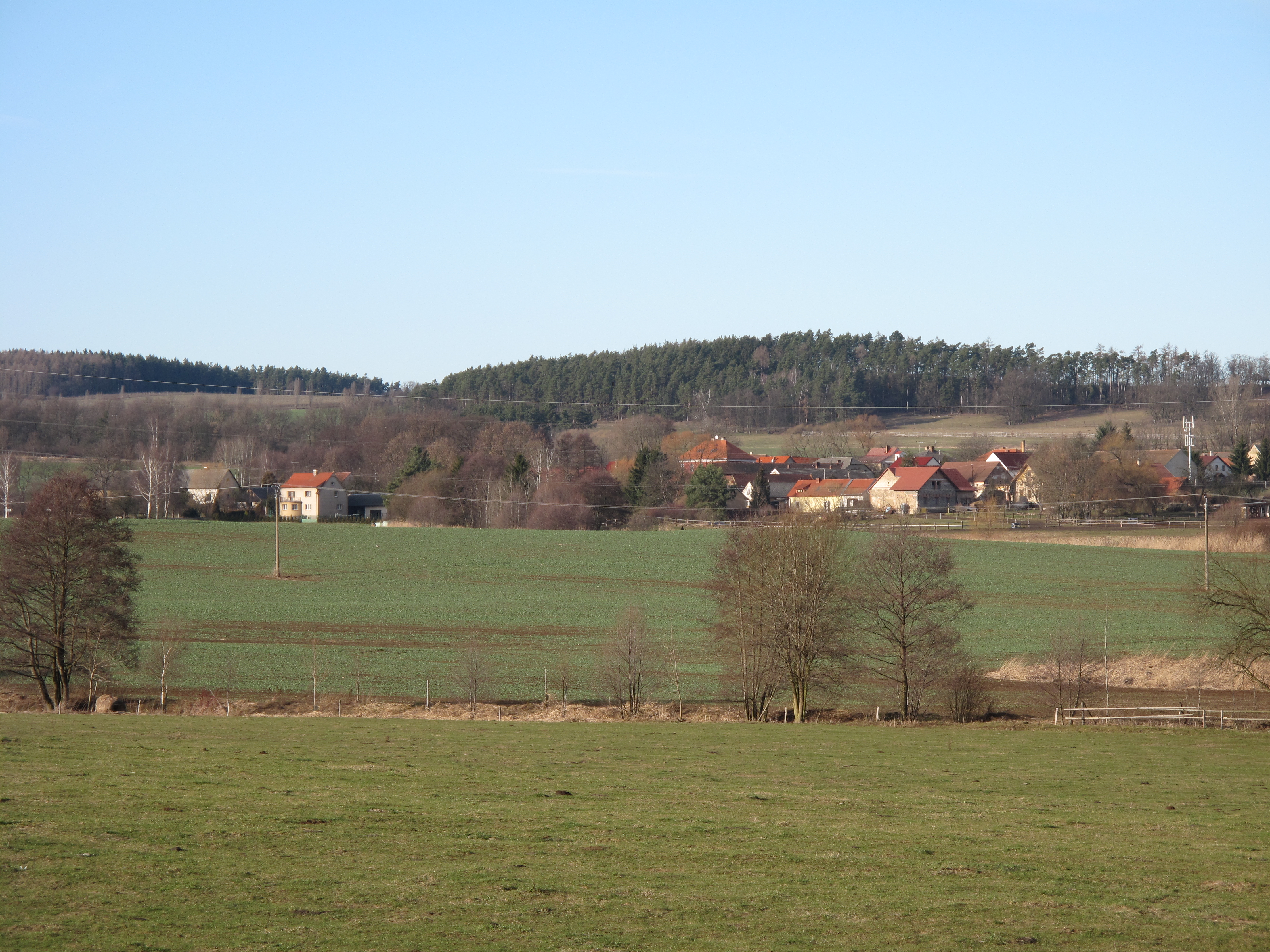 Korkyně village as seen from the south, Příbram District, Czech Republic.